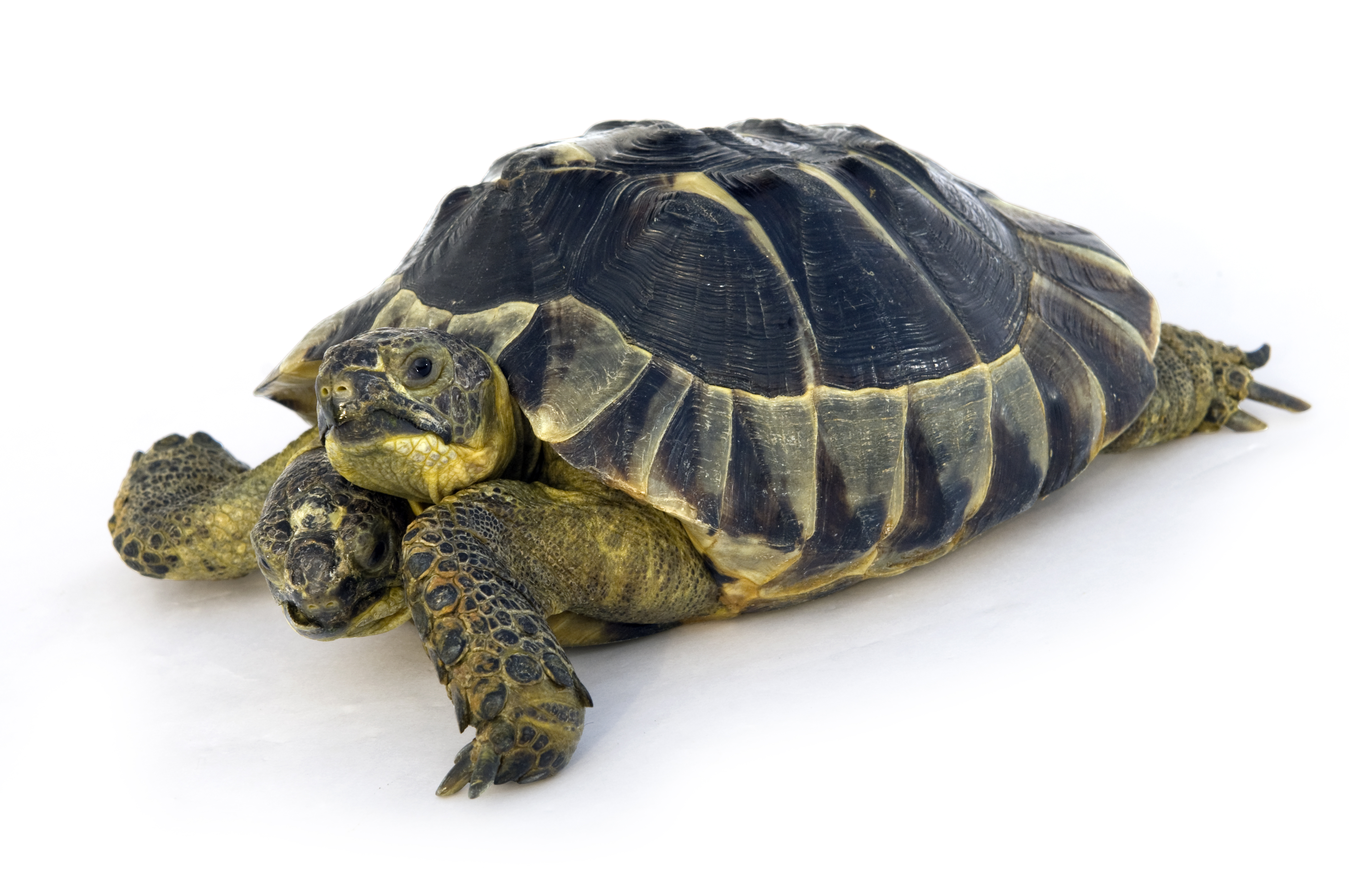 Janus, the two-headed tortoise exhibited in the Natural History Museum of Geneva